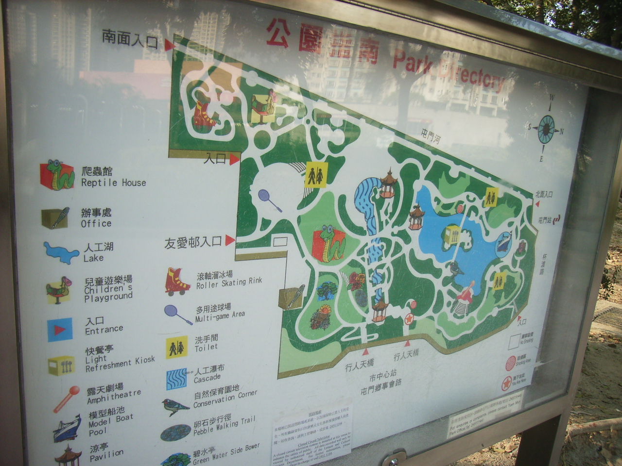 Tuen Mun Park, (屯門公園) 屯門, Tuen Mun, New Territories, Hong Kong. (Photo created by User:TUmuMATo)。